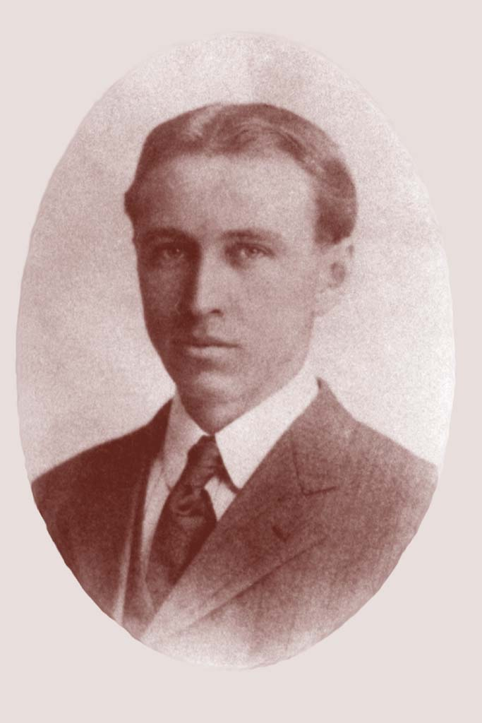 Donnel Foster Hewett (* 24. Juni 1881 in Irwin, Pennsylvania; † 5. Februar 1971) was an american geologist and mineralogist with the U.S. Geological Survey. He studied the mineralogy of Minas Ragra, near Cerro de Pasco, Peru, and was primarily responsible for its discovery; the largest vanadium deposit in the world. The minerals hewettite and metahewettite are named in his honor.